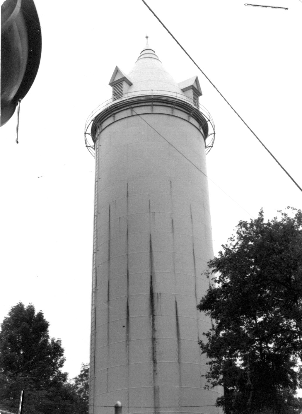 Reading Standpipe, Reading, Massachusetts. This structure was demolished in 1999.